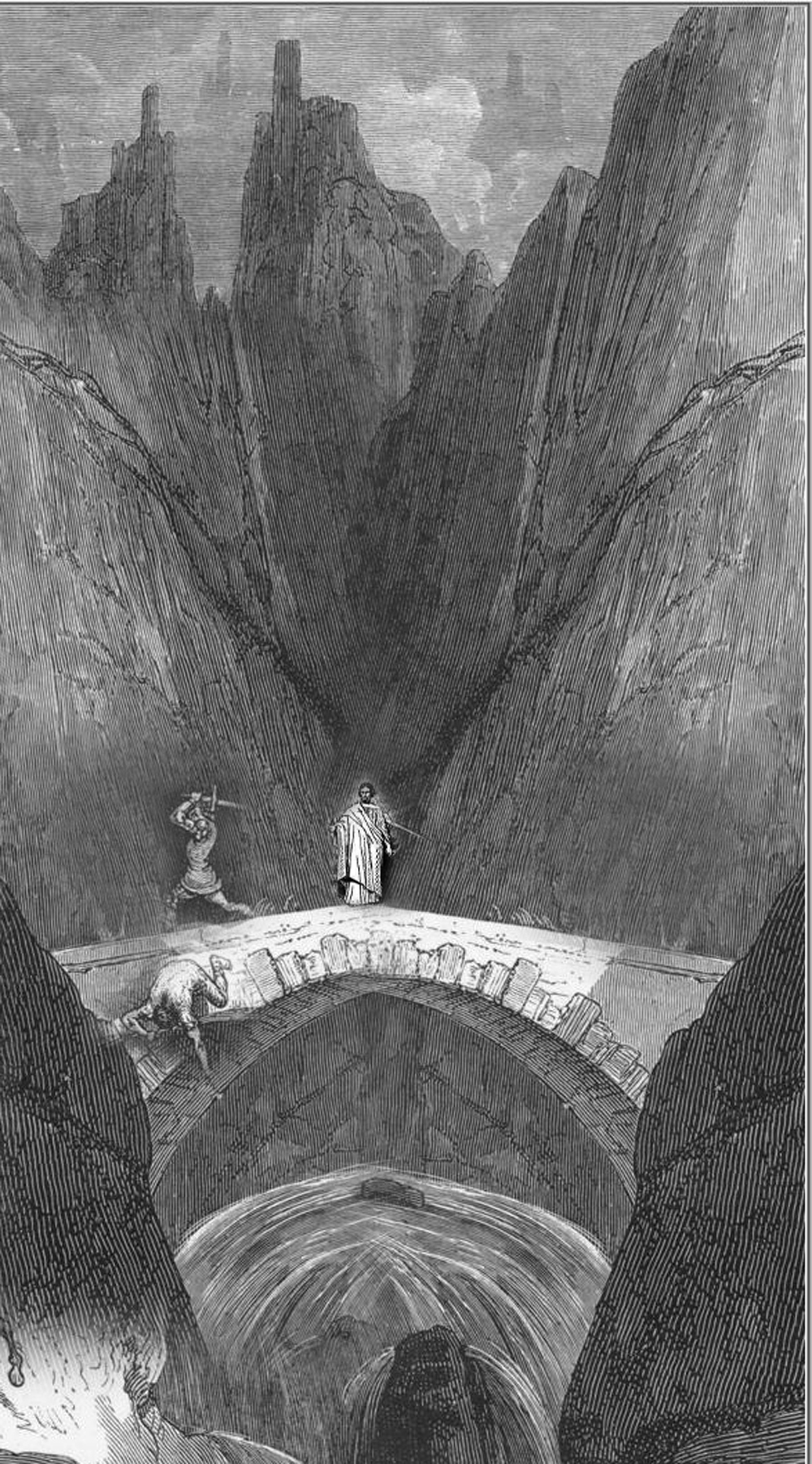 Buridan's bridge. One of proposed solution for Buridan's bridge sophism is to let Socrates to cross the bridge, and throw him into water on another side.